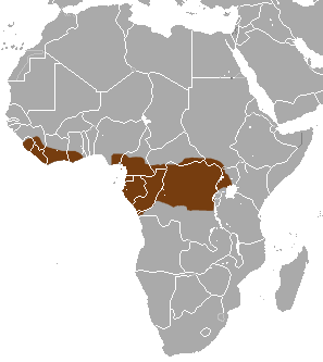 Western Tree Hyrax (Dendrohyrax dorsalis) range